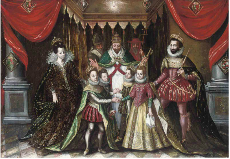 Follower of Alonso Sánchez Coello The double marriage of Louis XIII of France with Anne of Austria and Philip, Prince of Asturias, with Elizabeth of France oil on canvas 33 5/8 x 48 in. (85.5 x 122 cm.)